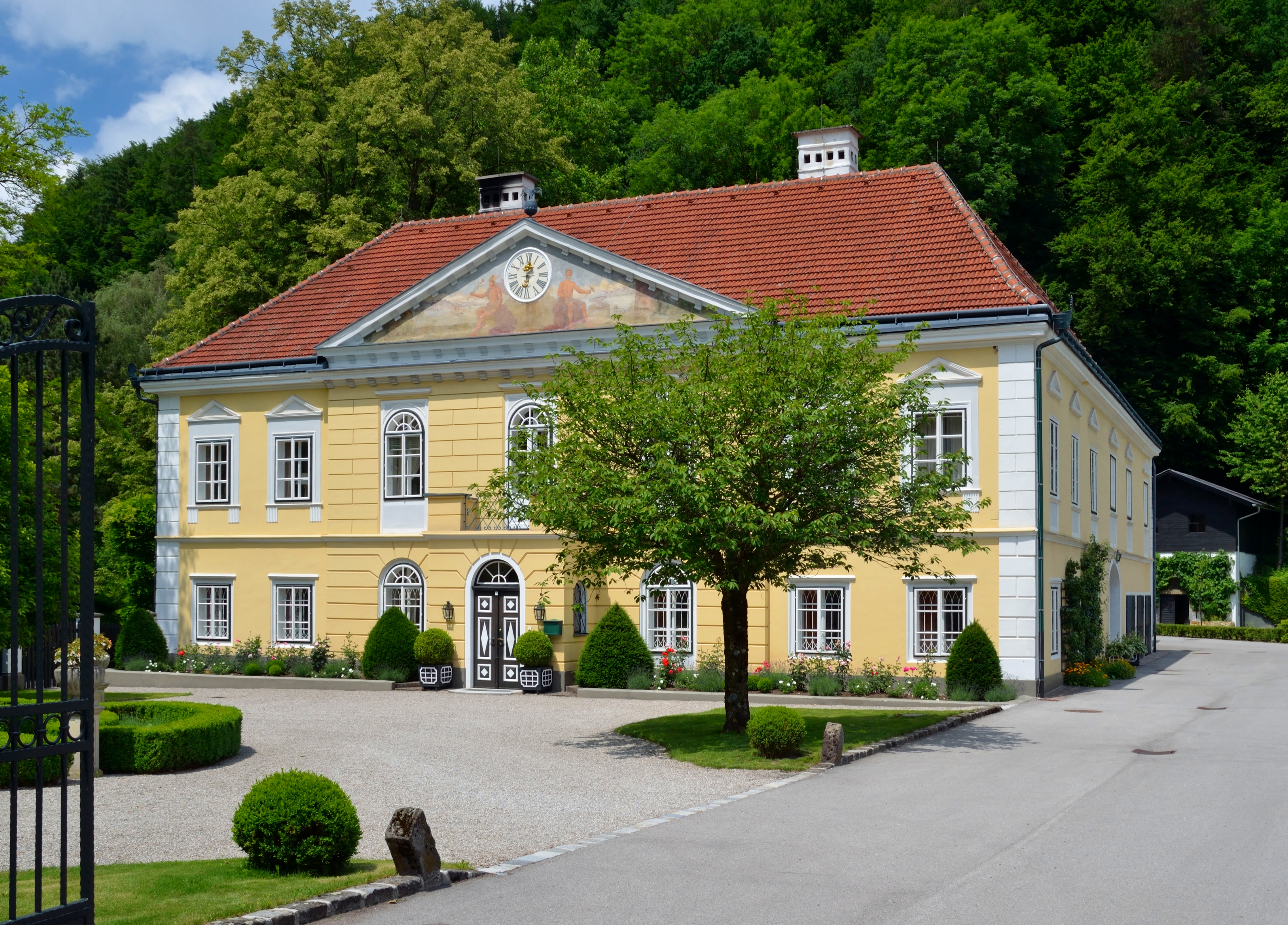 Villa of the sawmill owner Mosser (Mosser Holzindustrie) in Randegg, Lower Austria. The building is not protected as a cultural heritage monument.